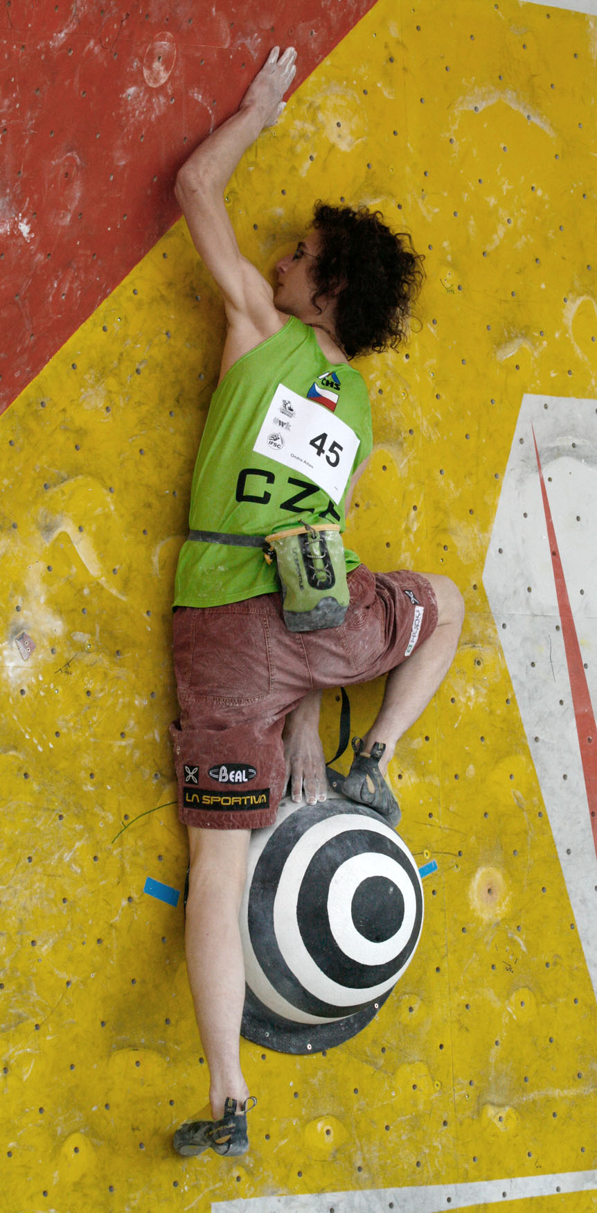 Adam Ondra during the semi-finals at the IFSC Boulder Worldcup Vienna 2010.